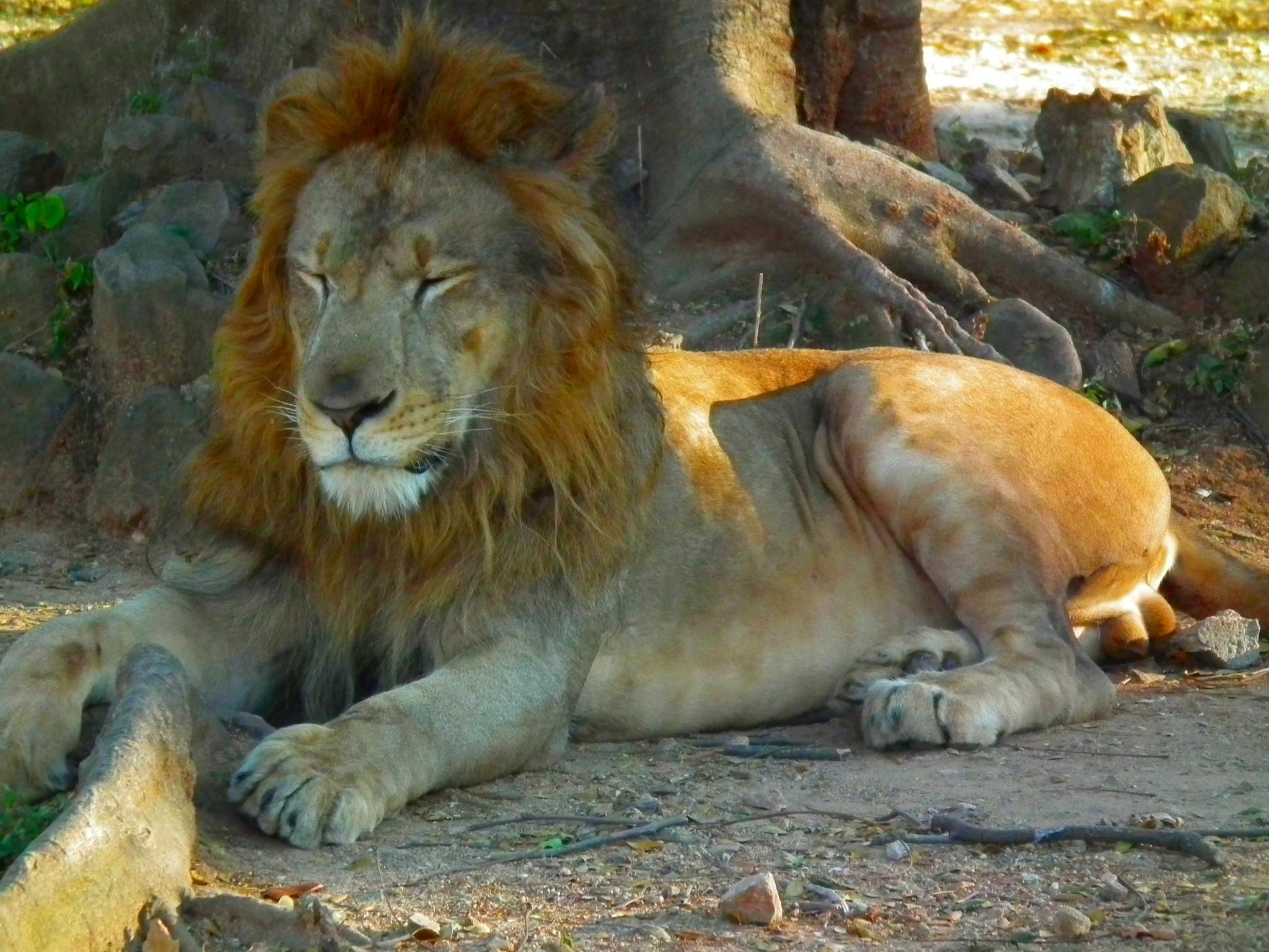 The lion (Panthera leo) is one of the four big cats in the genus Panthera, and a member of the family Felidae. With some males exceeding 250 kg (550 lb) in weight. it is the second-largest living cat after the tiger. Wild lions currently exist in Sub-Saharan Africa and in Asia with an endangered remnant population in Gir Forest National Park in India, having disappeared from North Africa and Southwest Asia in historic times.